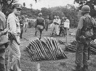 Japanese weapons collected by the 40th Division in the Philippines 1945.